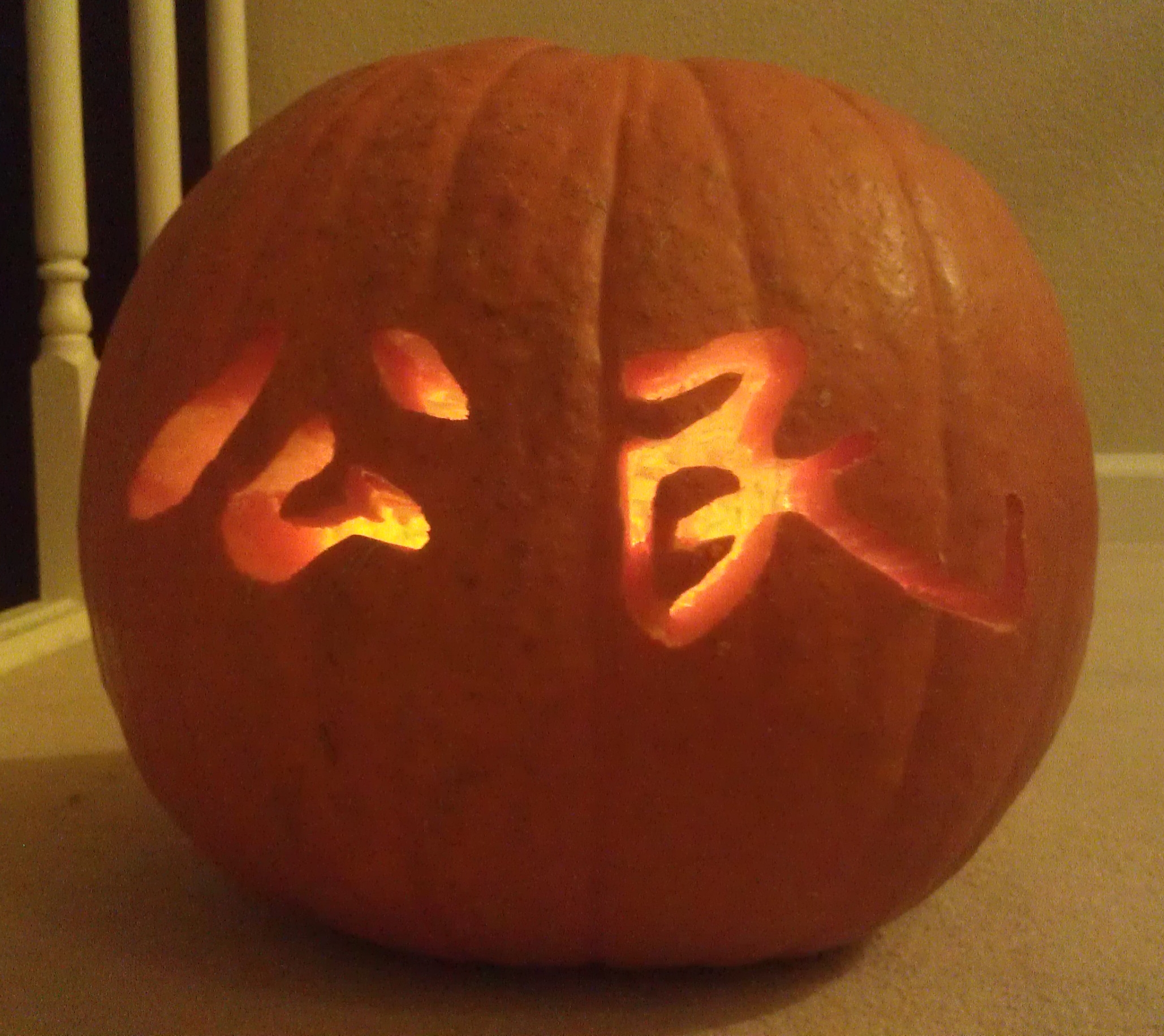 Citizen insignia on Jack-o'-lantern